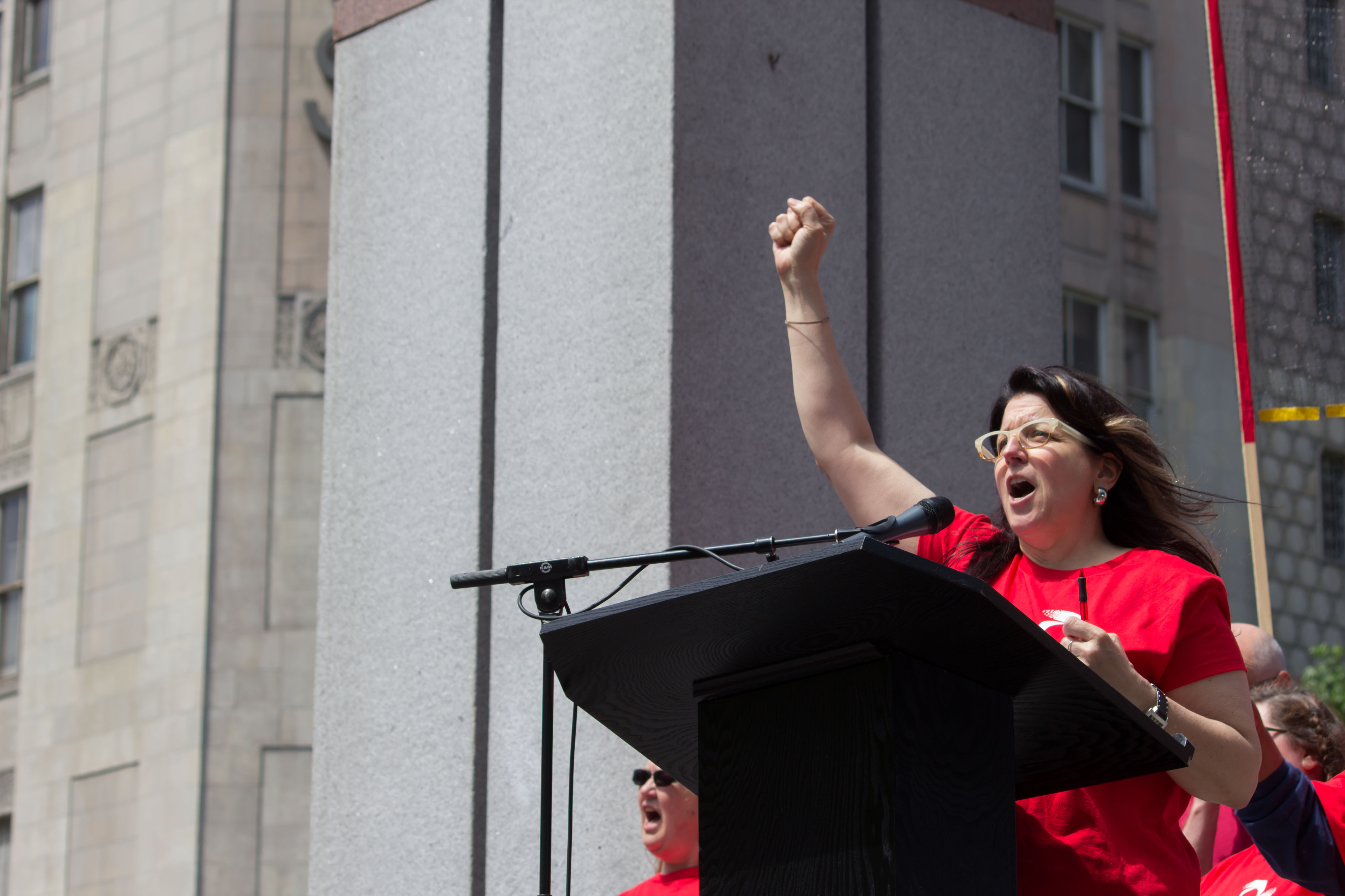 Teacher Rally for Education Funding